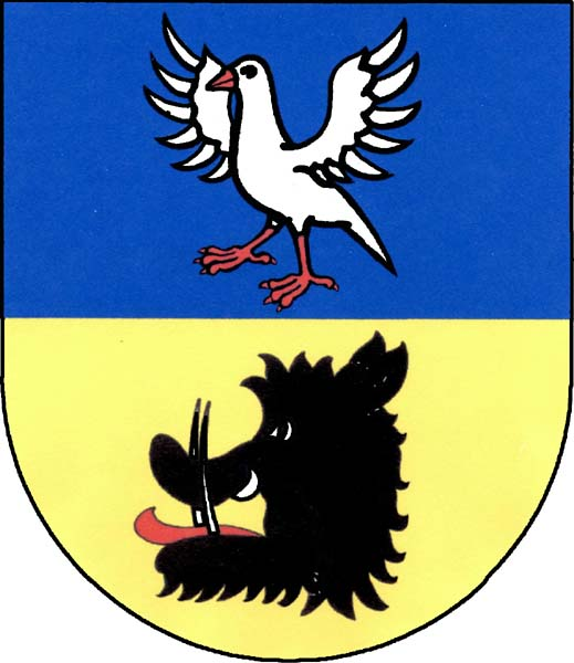 Municipal coat of arms of Všenory village, Prague-West District, Czech Republic.